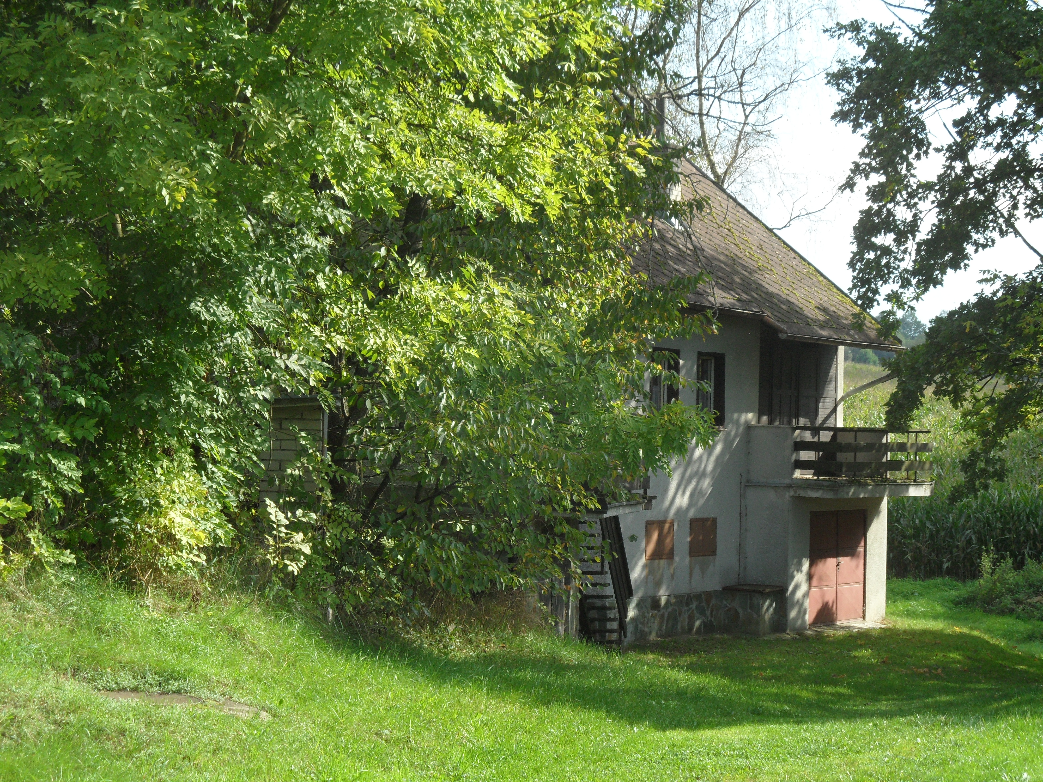 Rýzmburk (Hulice) A. Large House, Kutná Hora District, the Czech Republic.